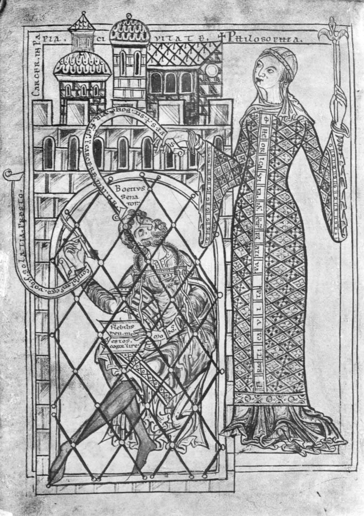 The personification of Philosophy visits Boethius in his confinement, from a Latin manuscript of his Consolation of Philosophy.